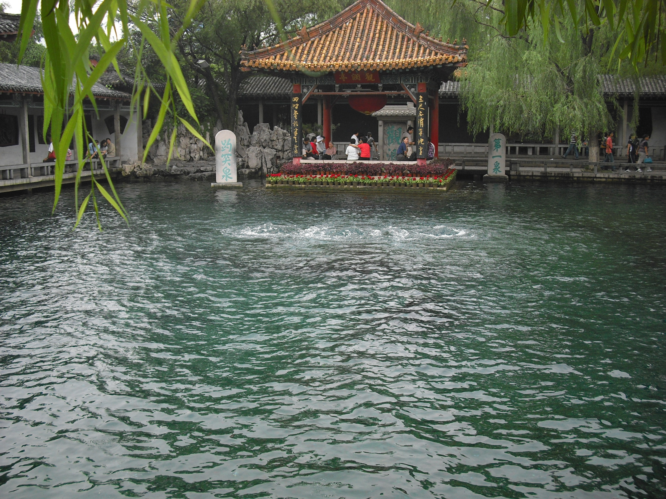 Batouspringpark in Jinan